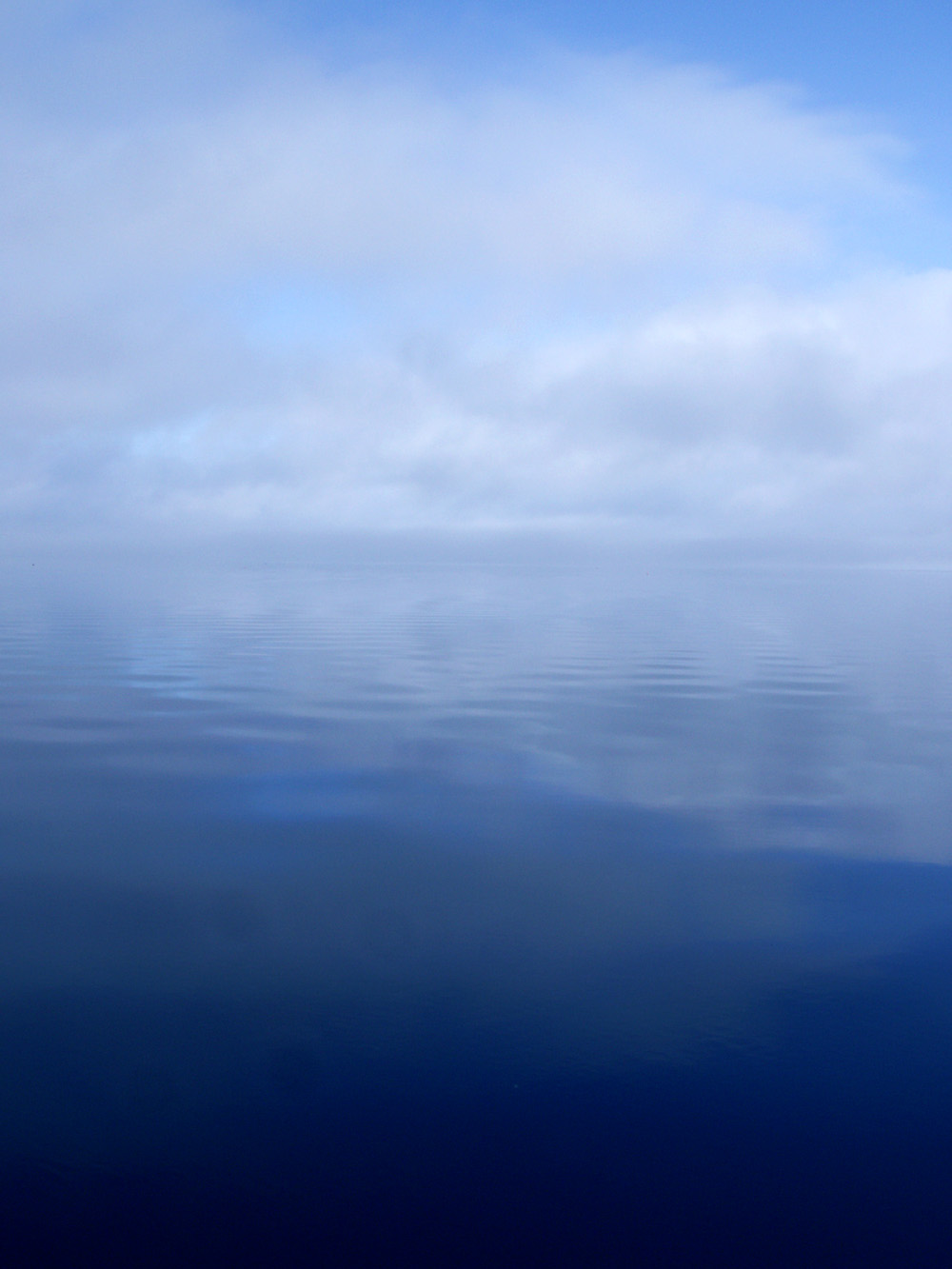 Fog on the St. Johns River (Florida), taken at the Shands Bridge on the Duval/St. Johns County side, 9 am